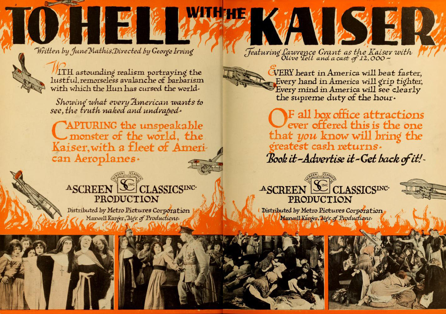 Advertisement in Moving Picture World, Jul 1918 for the American film To Hell with the Kaiser! (1918).